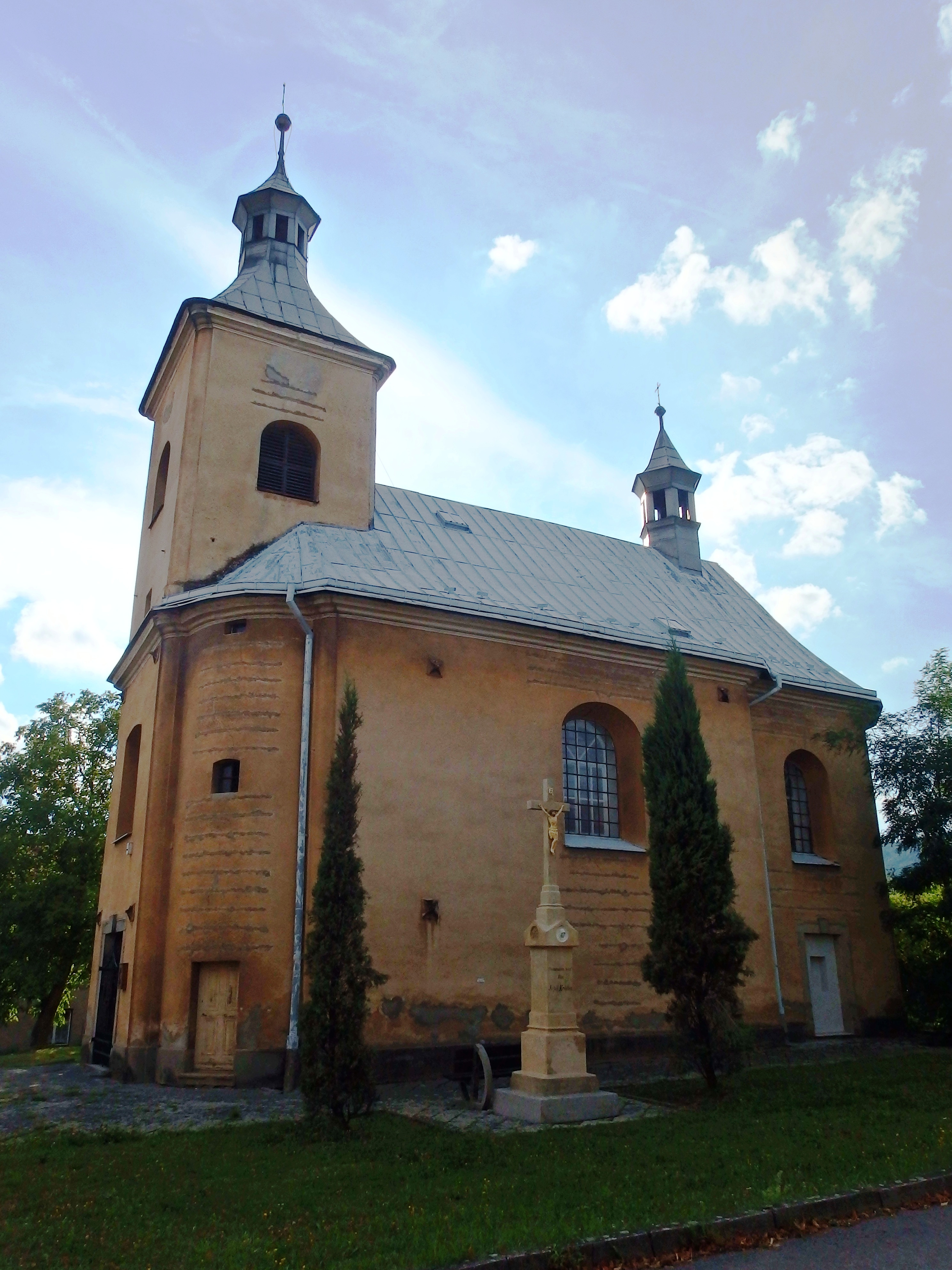 Lipník nad Bečvou, Přerov District, Czech Republic, part Loučka.